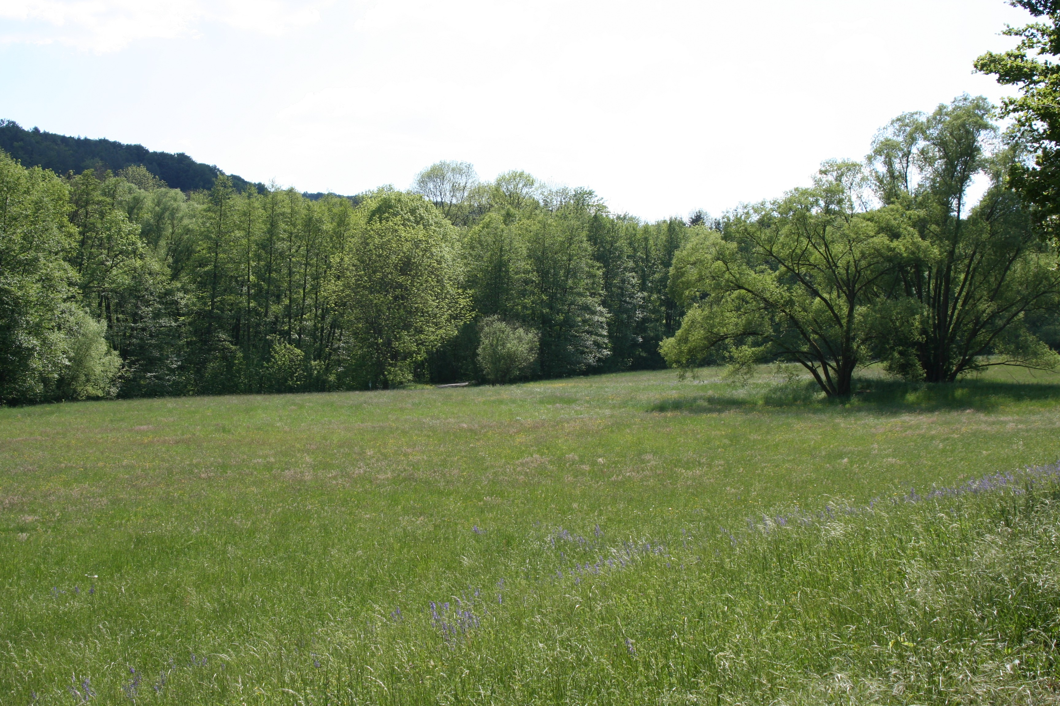 In the Stadtsee valley in Weinsberg